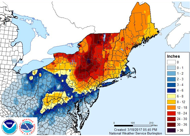 Snow total observed from march 14th to March 16th 2017 during a major snowstorm event. Highest amount is in Otsego County near Hartwick at 48.4 inches (123 cm).